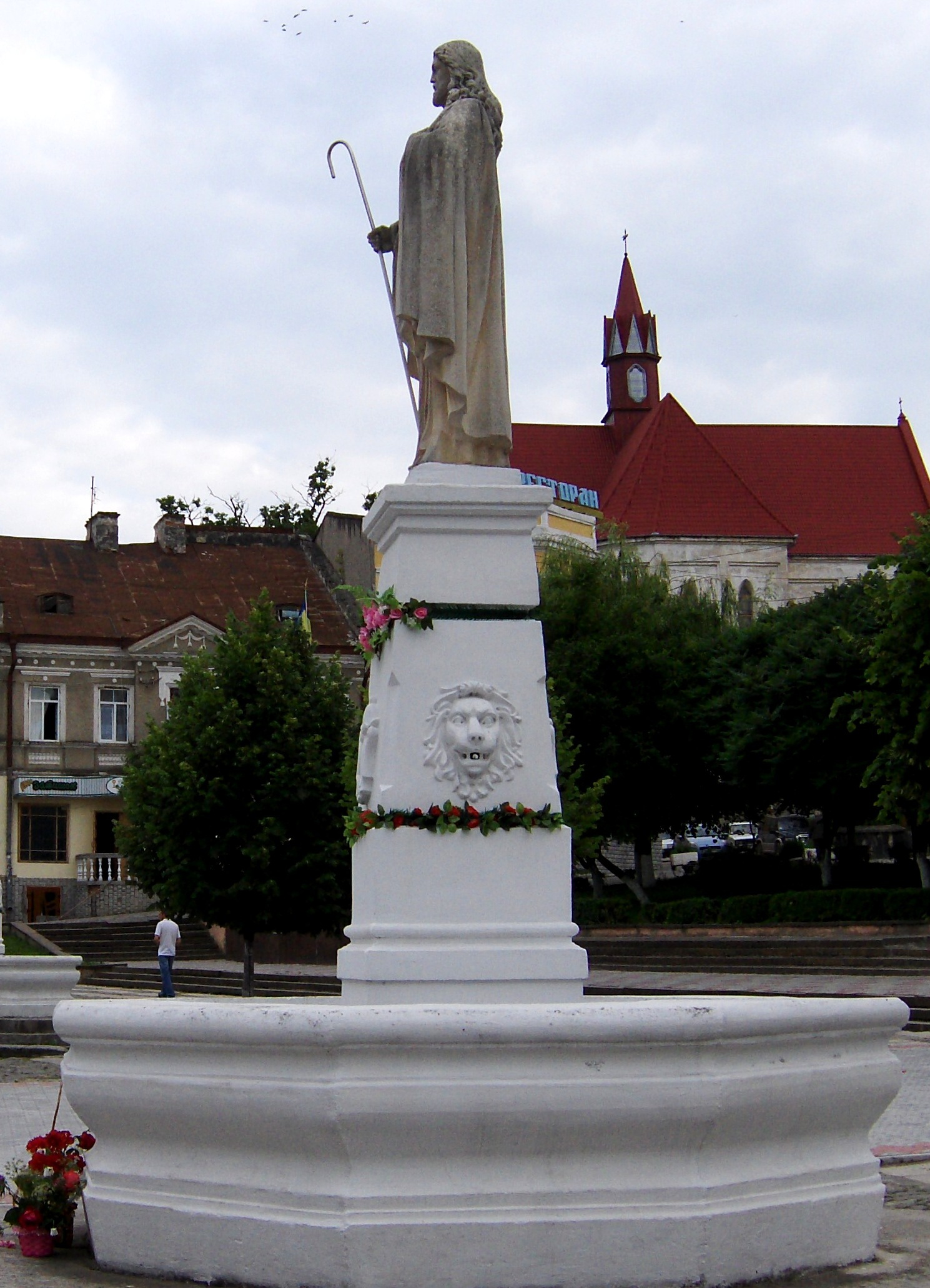 Statue of Jesus Christ at the main square of Berezhany, Ternopil region, western Ukraine.